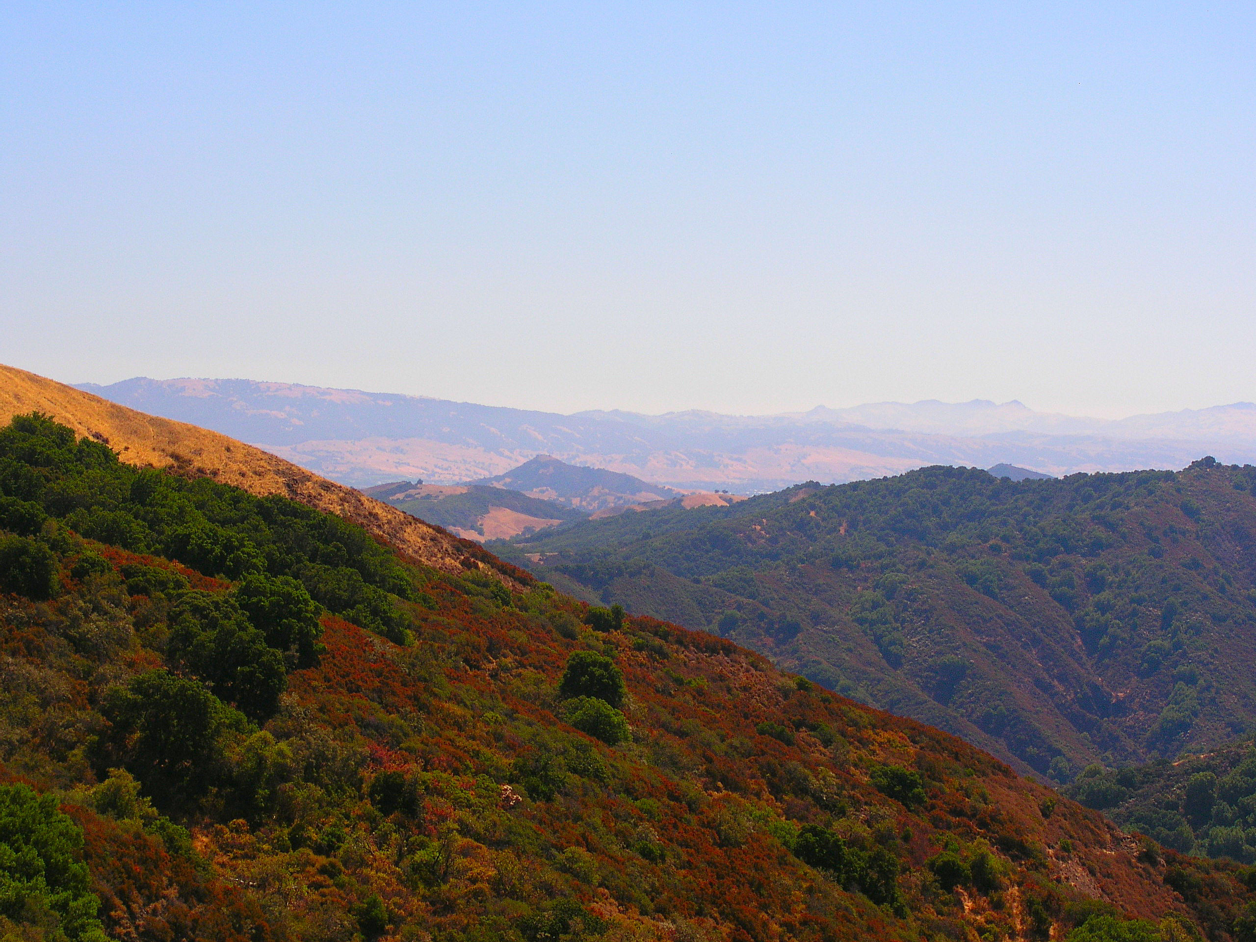 El Toro Mountain in Morgan Hill, Ca. from Sierra Azul Open Space Preserve. Part of the Midpeninsula Regional Open Space District system.